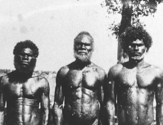 Title: Personal photographs of the Hon. C L A Abbott during his term as Administrator of the Northern Territory - Aborigine Chief of Bathurst Island who died of fright in Darwin when he saw his first motor car Date: 1939